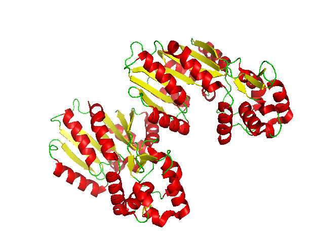 Histamine N-methyltransferase